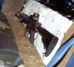 The Bushmaster XM-15 used by the D.C. snipers during their attacks in October 2002. It is equipped with a 20-round STANAG magazine and a holographic weapon sight of some sort.